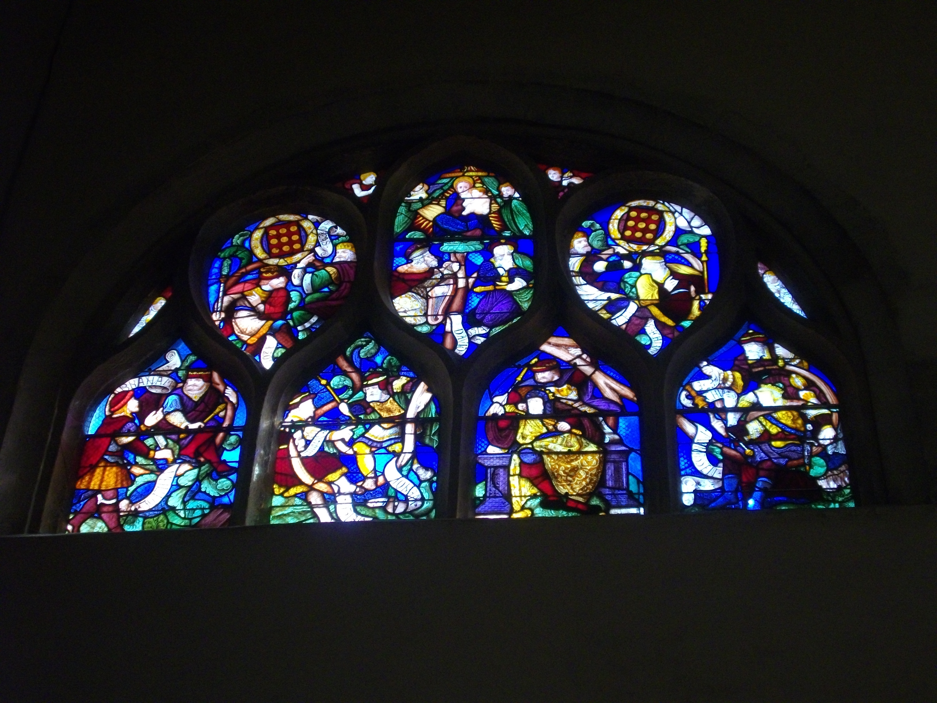 Saint Giles church of Malestroit (Morbihan, France), stained glass window of Tree of Jesse .